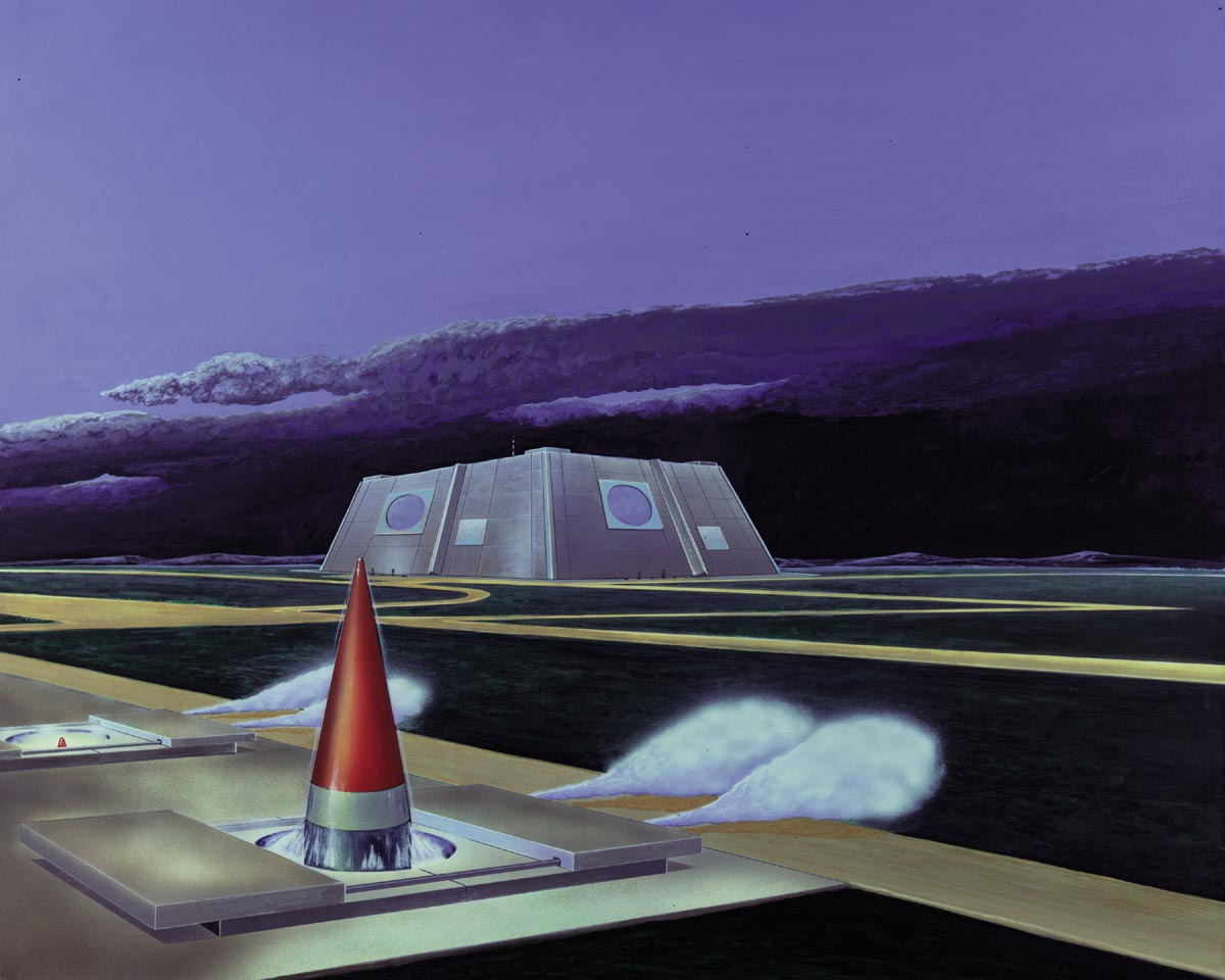 The Soviet Union built the world's only operational anti-ballistic missile (ABM) system around Moscow in the 1970s. Beginning in 1980, they improved and expanded this system. Two of these improvements are shown in this 1983 illustration: the silo-based, nuclear-tipped GAZELLE interceptor missile and a new large radar intended to control ABM engagements.